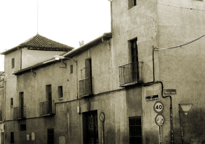 Casa Grande de Fuencarral, in Fuencarral District of Madrid. This is a typical building of the seventeenth century, which was a self-sufficient agricultural production unit, representing the economic power of the family owner.